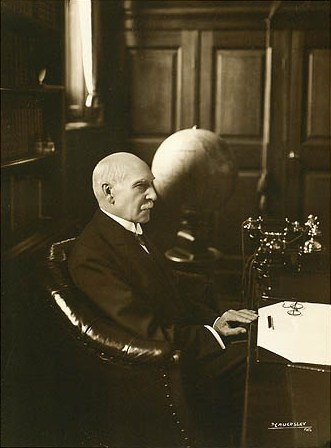 Hans Niels Andersen (1852-1937), Danish businessman, co-founder of ØK.